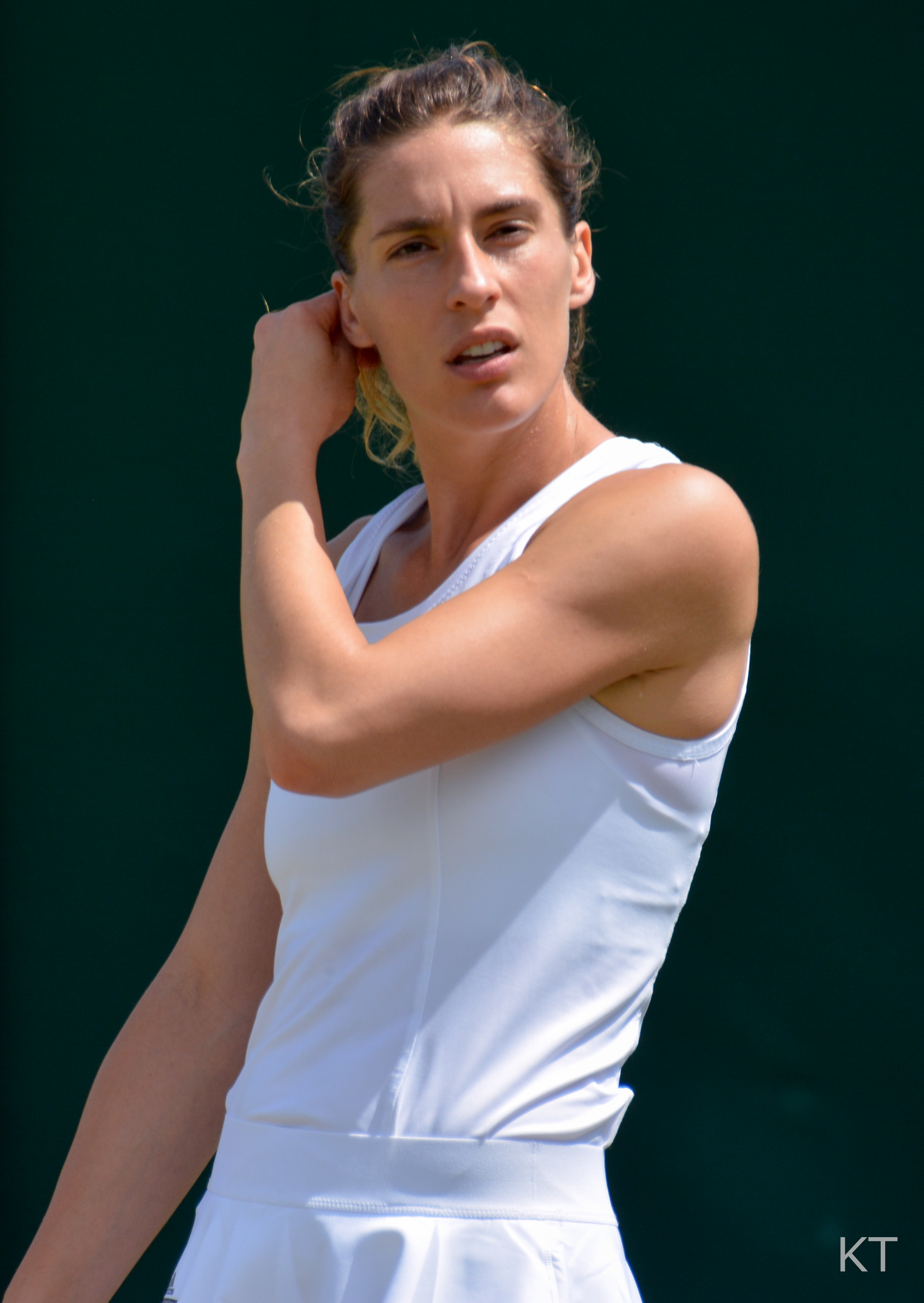 Middle Sunday of Wimbledon 2016.